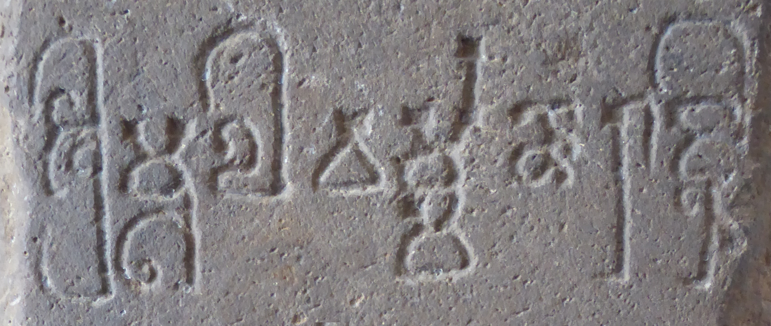 Mulavarrmana Raja